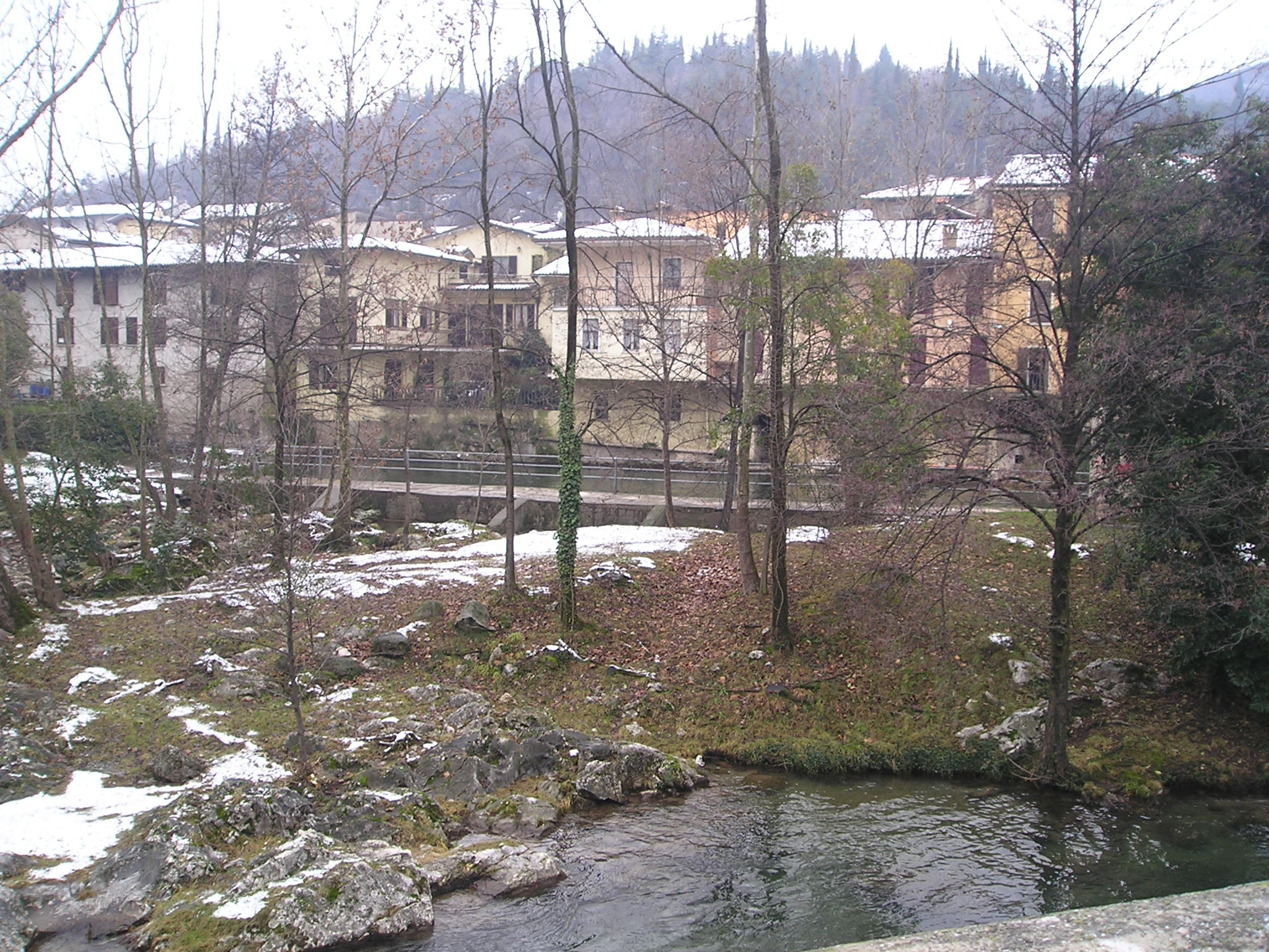 Gavardo's island with the rivers Naviglio and Chiese